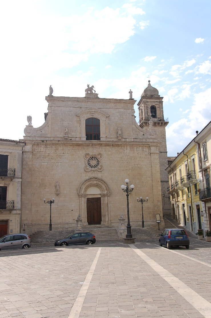 Popoli 2011